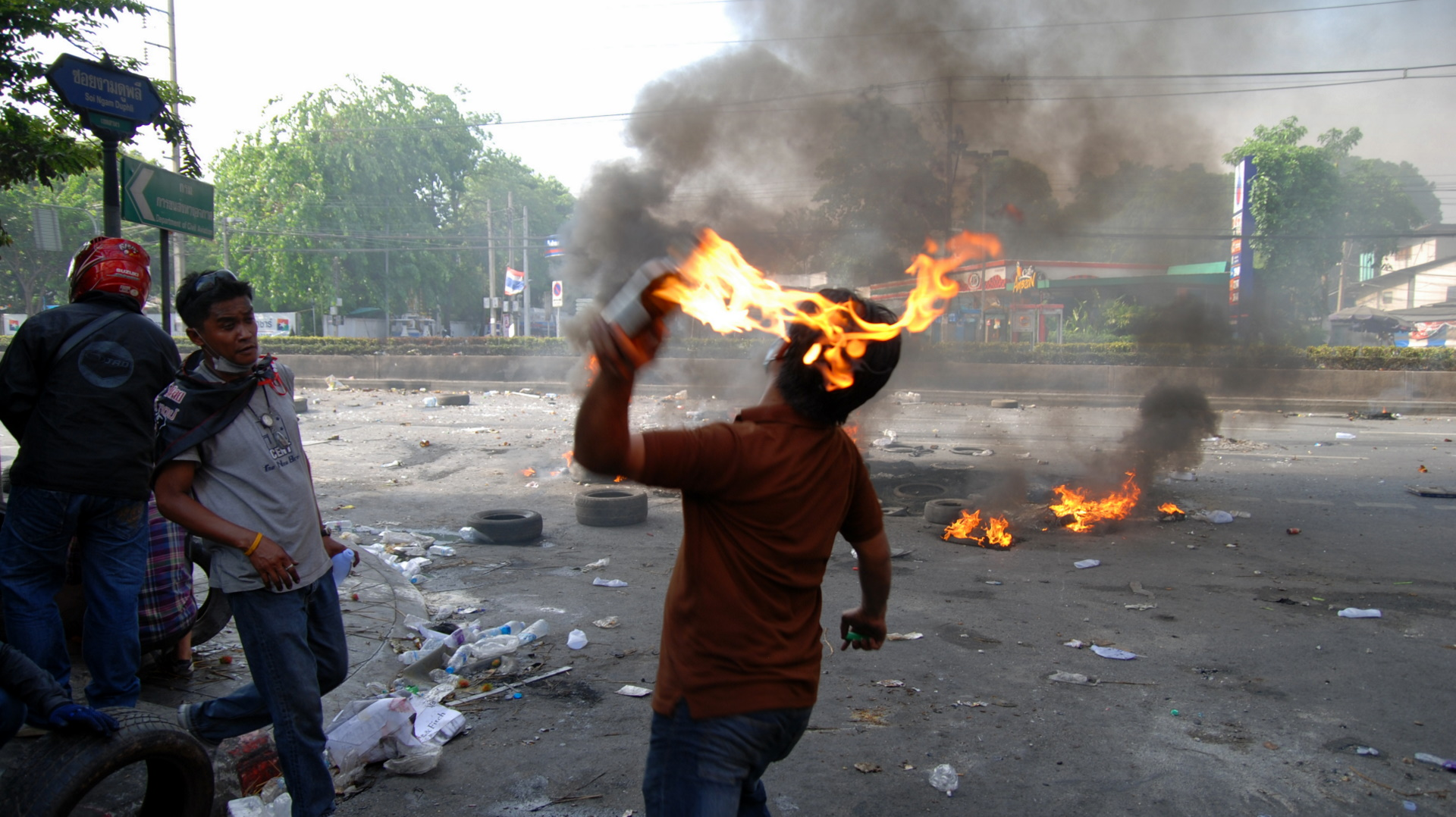 Molotov cocktails are hurled at the tyres to keep them burning; the resultant smoke from the burning tyres prevent the security forces getting a clear view of the "Red Shirt" barricades further down Rama 4.